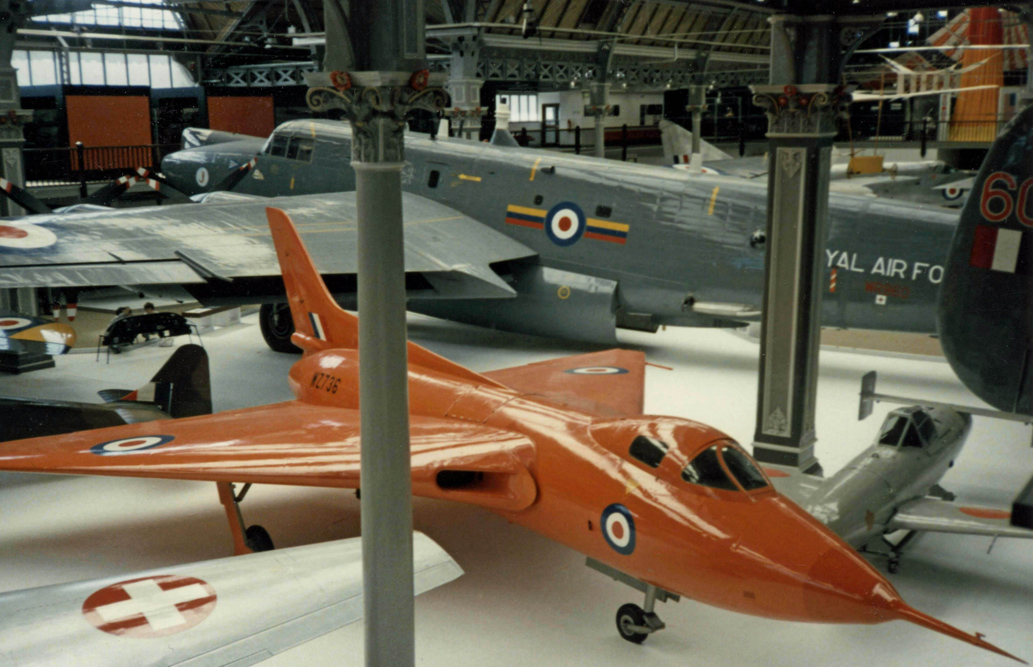 Avro 707A delta test aircraft WZ736 displayed in the Museum of Science & Industry in Manchester, England